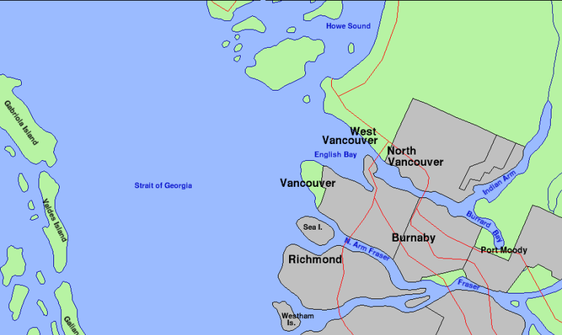 Description: Map of the region around Vancouver. Note that due to the projection used, the north-south longitude is slightly off-axis, and follows the indicated boundary lines between cities such as Vancouver and Burnaby on this map. Source: Created for Wikpedia by Kbh3rd on September 3, 2004 from data made available 1999, Government of Canada with permission from Natural Resources Canada.[1]